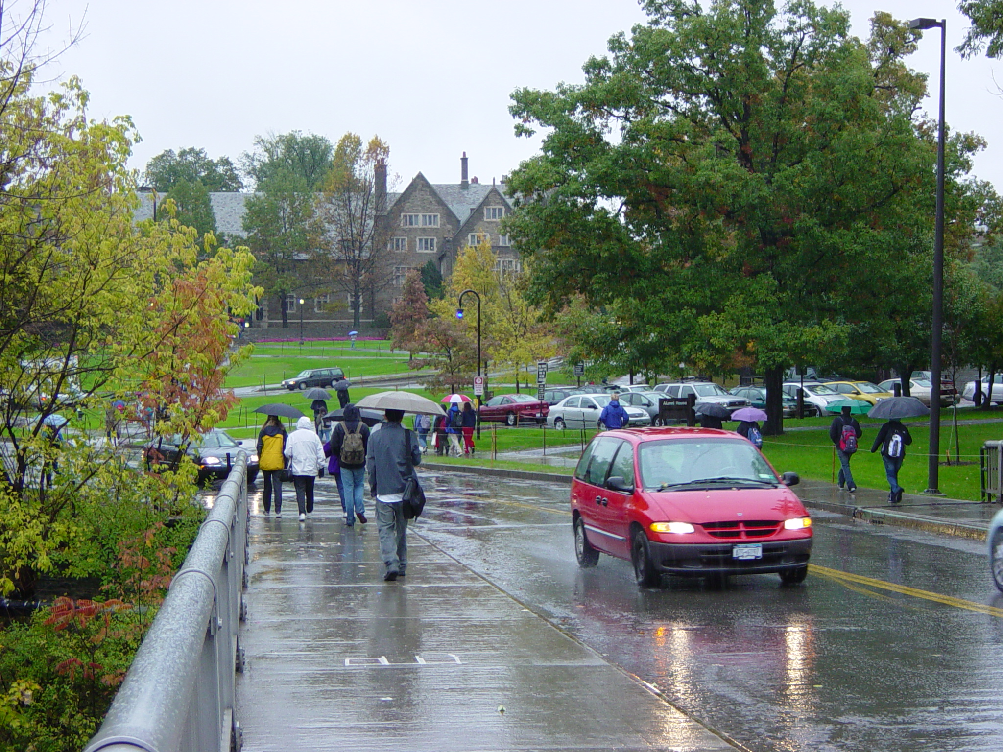 Looking north toward Cornell University's North Campus, with Balch Hall visible in the background. Taken while standing on the Thurston Avenue Bridge in Ithaca, NY, on the Cornell University Campus. NB: This photograph was taken before the extensive renovations which expanded the bridge, widened the sidewalks, added bike lanes, &c.